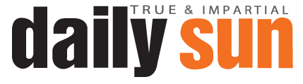 Logo of the Daily Sun newspaper of Dhaka, Bangladesh